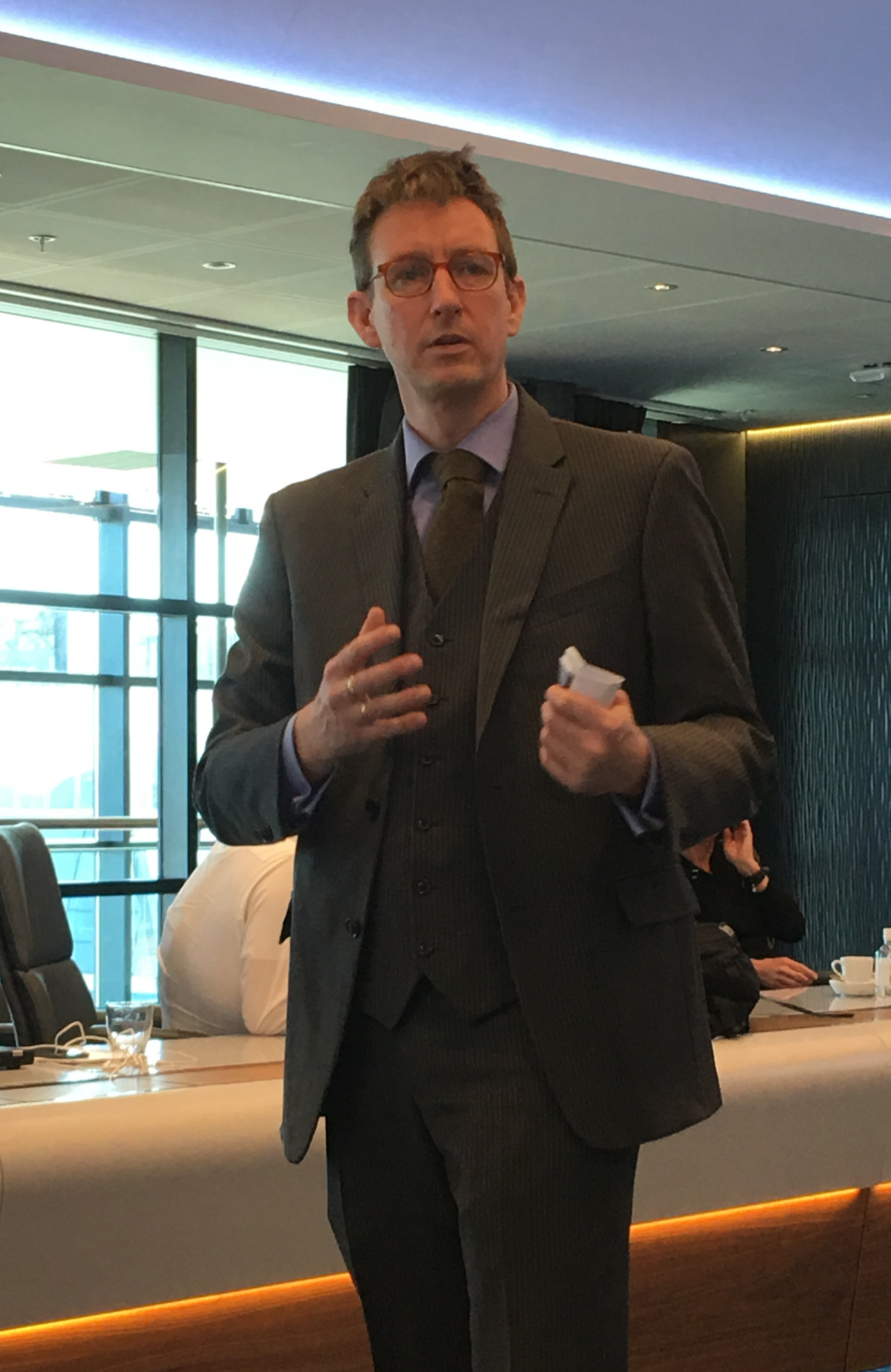 Asle Toje, a social scientist, director of the Norwegian Nobel Institute. Summer, 2017.